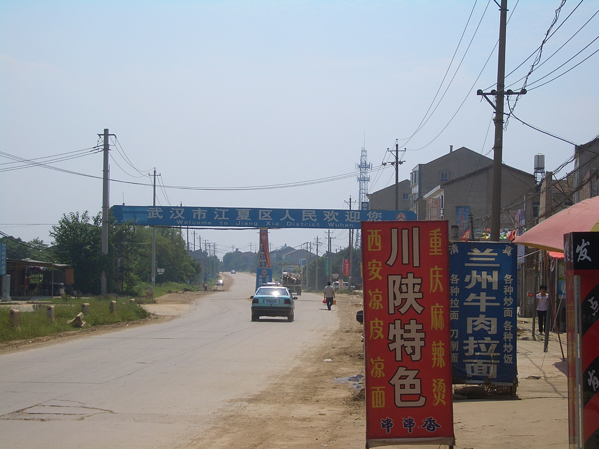 Entering Jiangxia District from Hongshan District. Both are parts of Wuhan City administratively; but the former (JIangxi) is actually mostly rural, its urban core being a separate town of sorts; Hongshan, on the other hand, includes both a section of urban Wuhan and some rural land to the south of it. The restaurant signs by the road side invite one to try dishes form three other provinces - Lanzhou (Gansu) halal beef noodles, Chongqing (Sishuan) Mala bunch (麻辣燙), and Xi'an (Shhanxi) cold noodles 凉面